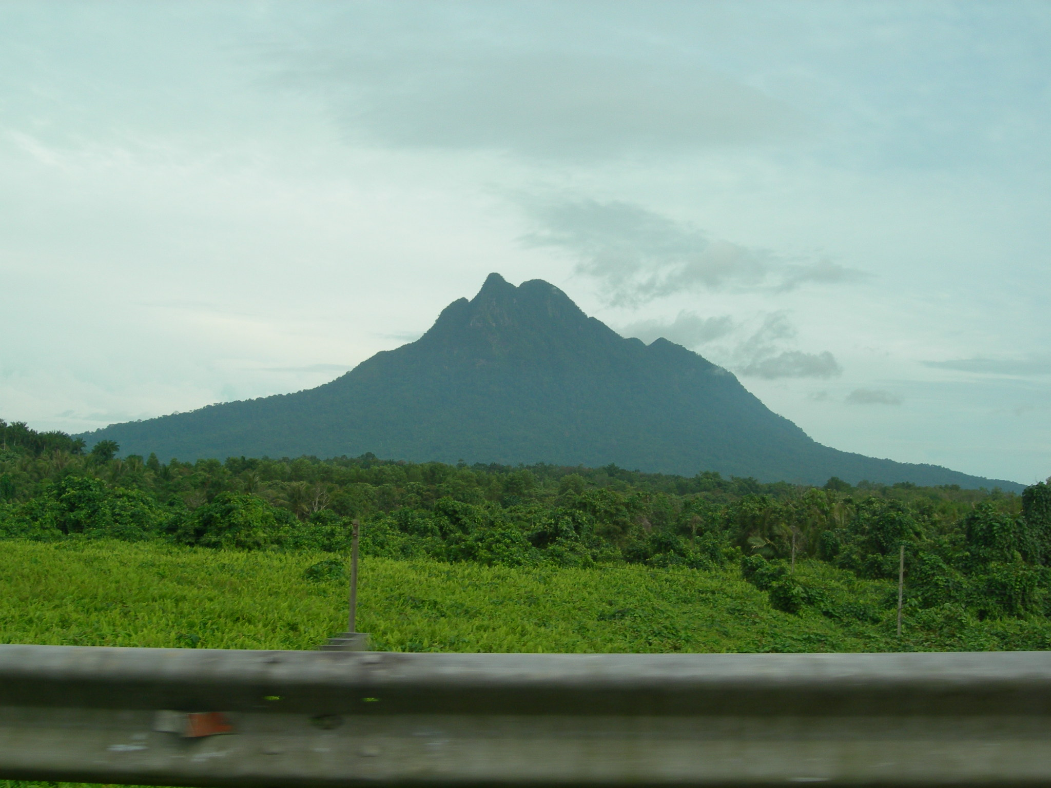 Mount Santubong from Santubong Bridge, taken in a moving car.